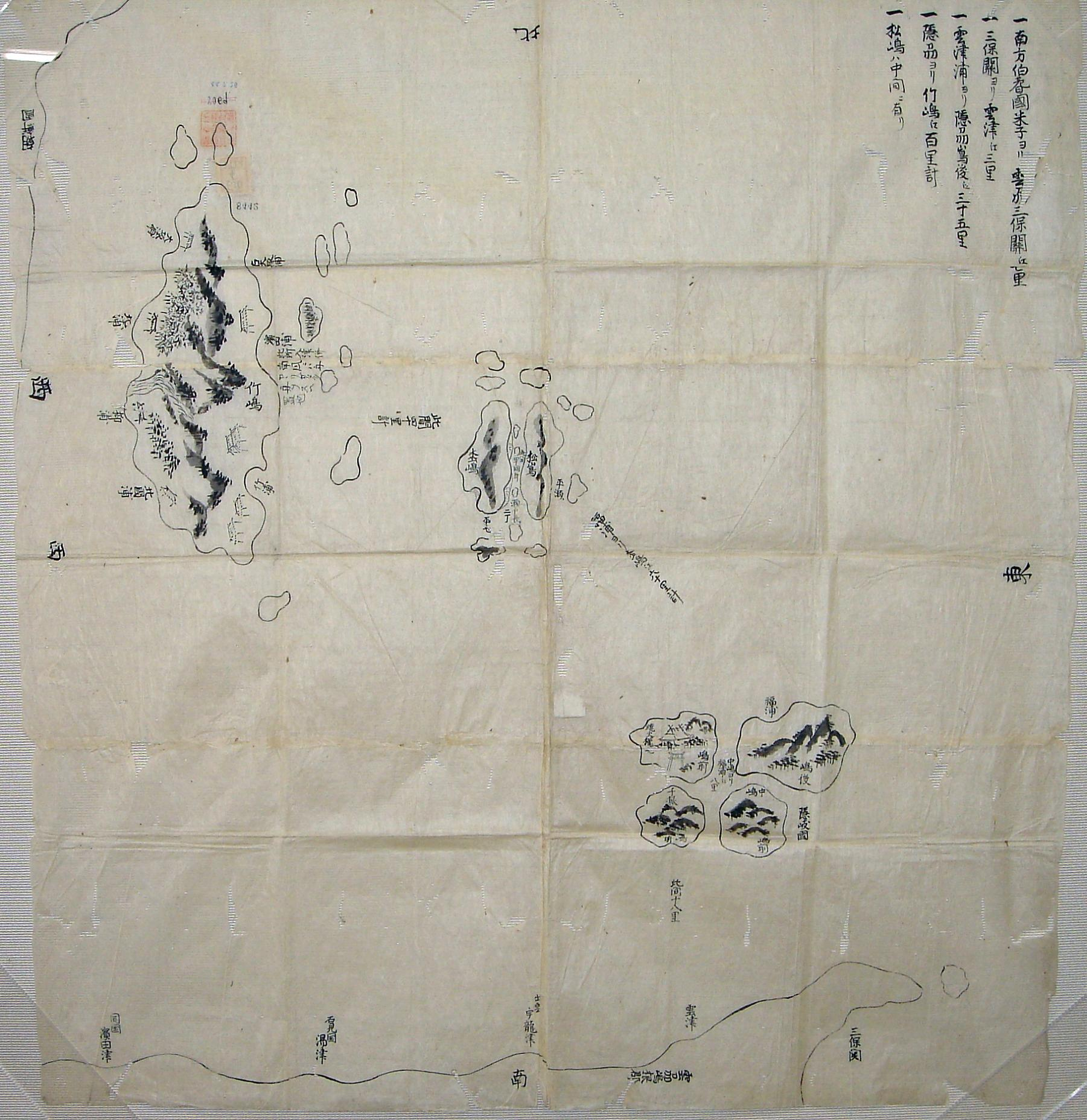 The map of Takeshima（1724） in Japan. Oki Islands, Liancourt Rocks and Ulleung Island in old Japanese map